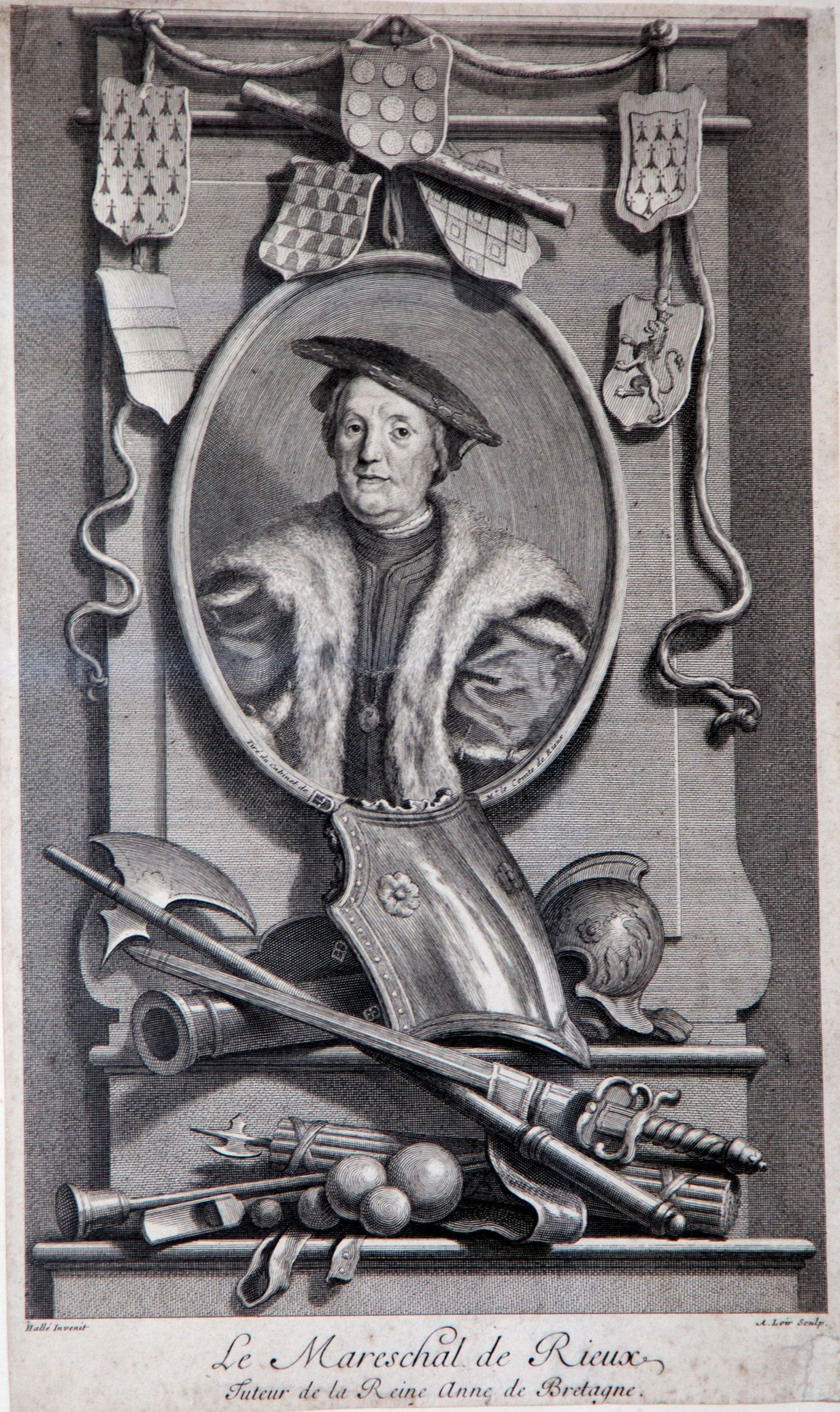 Engraving after a portrait of Jean IV de Rieux